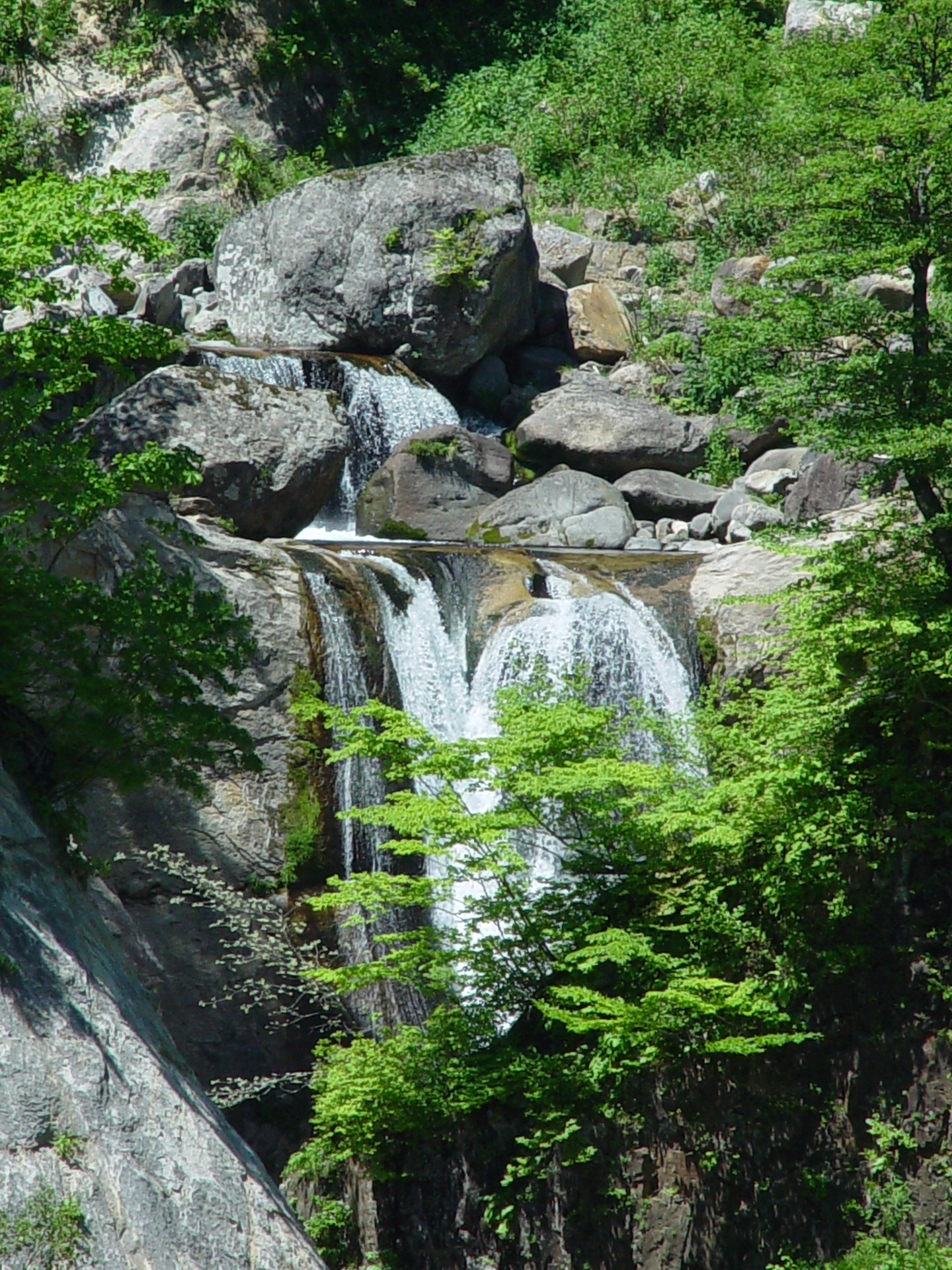 Itoshiro river , Otaki Waterfall